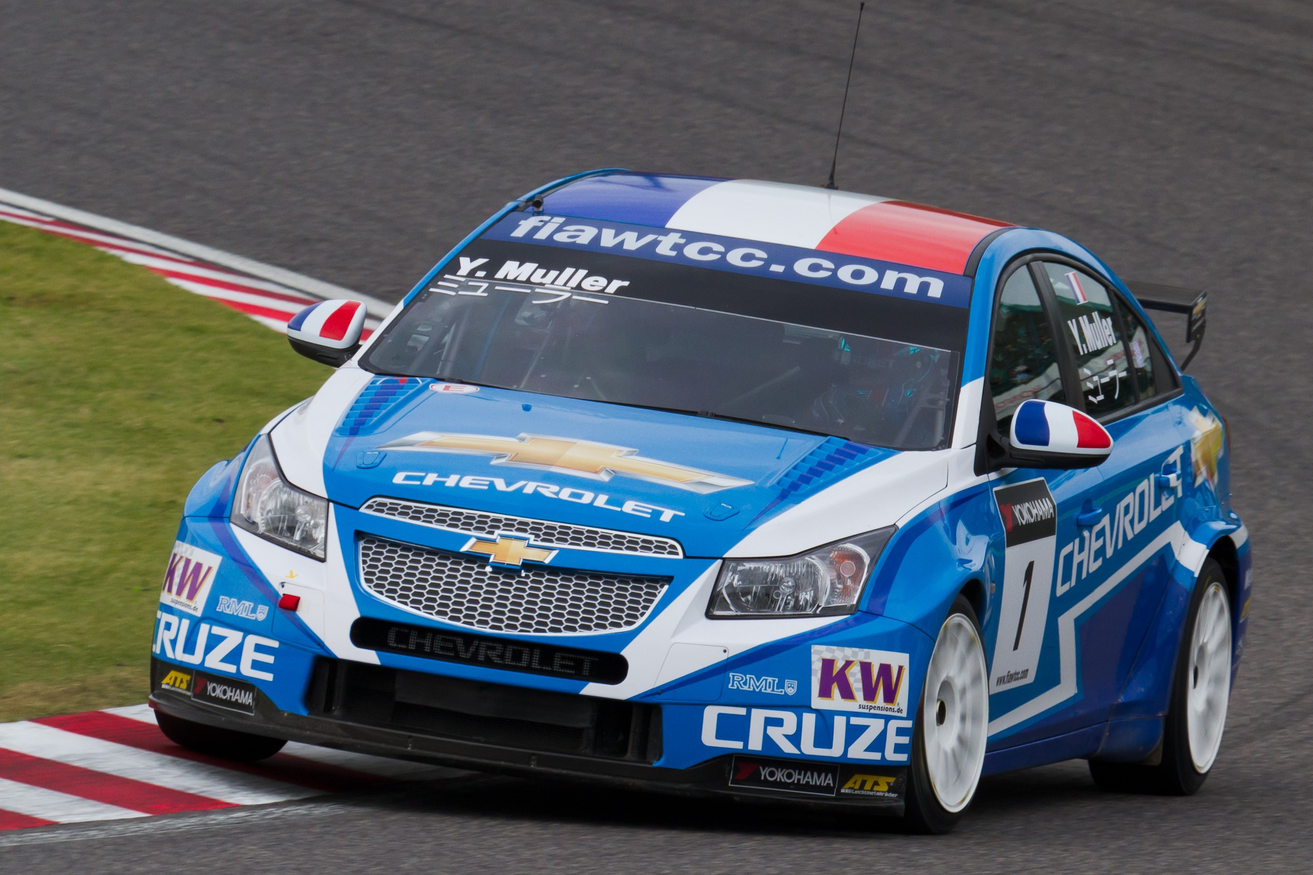 World Touring Car Championship 2011 Race of Japan: Yvan Muller (Chevrolet) during the qualify session on Saturday.